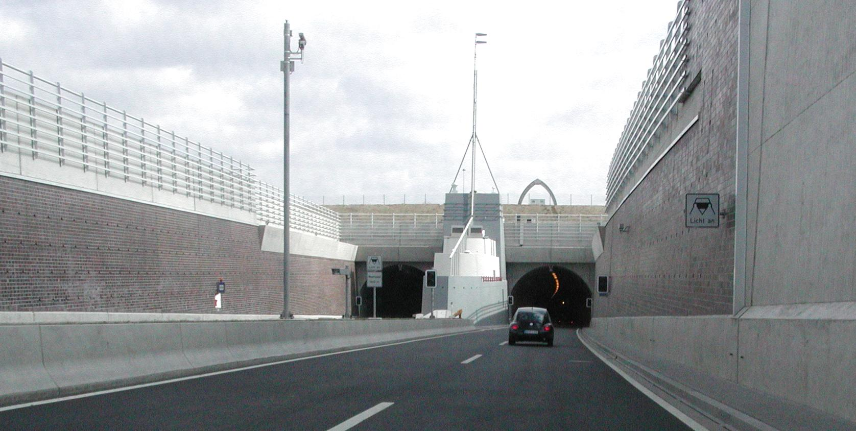 Driving into the Wesertunnel from western direction, Stadland, Lower Saxony, Germany